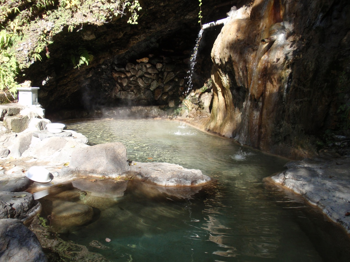 Ogawa Onsen Motoyu in Asahi, Toyama.